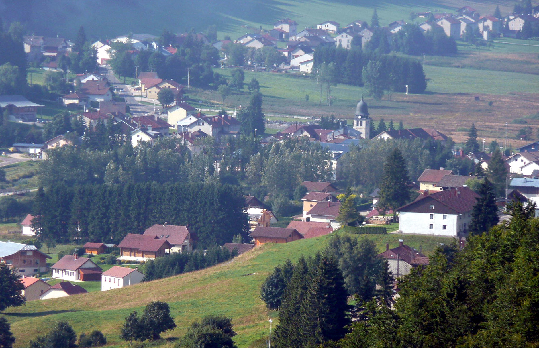 Panorama of Bois-d'Amont in the Jura department (east of France).